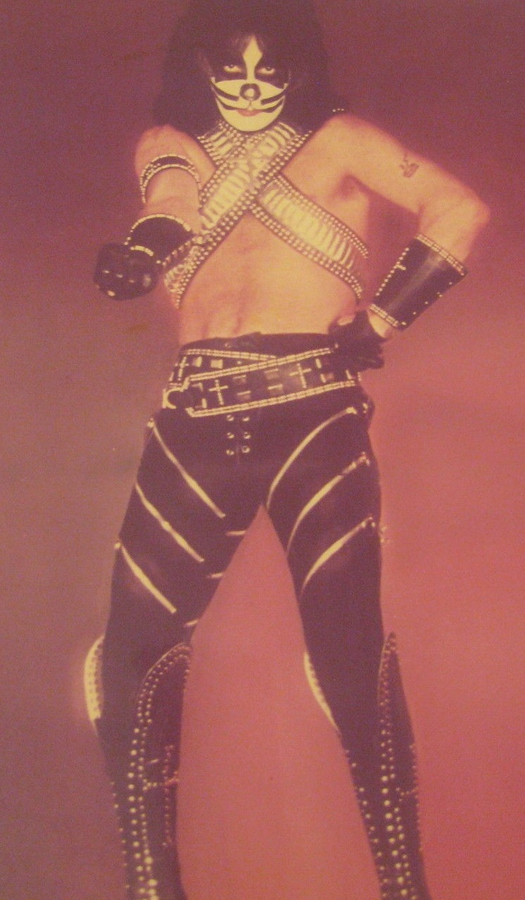 Kiss drummer Peter Criss.